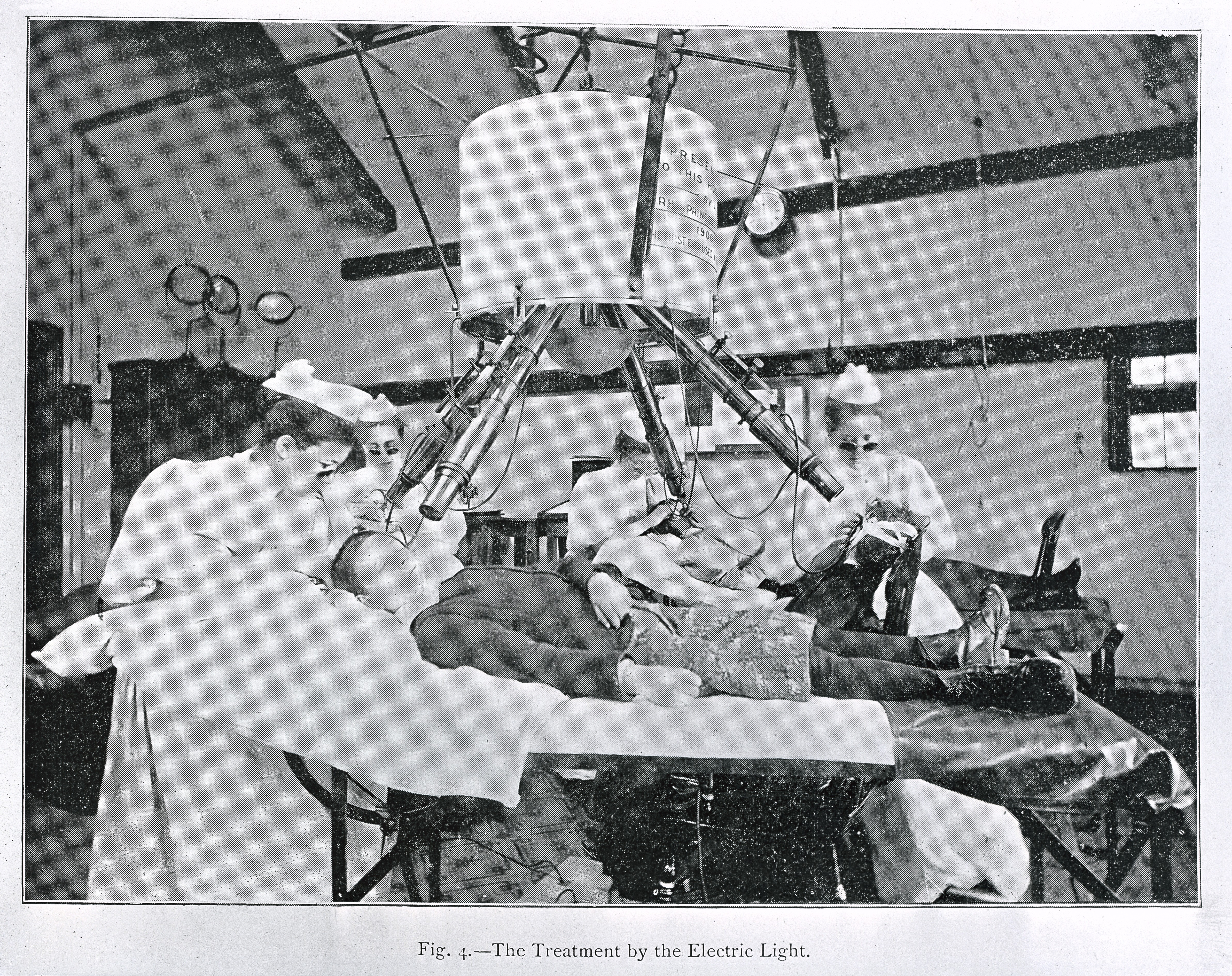 Apparatus devised by N.R. Finsen for treating disease with ultra-violet rays. Apparatus in use. Presented to hospitals in 1900 by Princess Alexander of Wales. Wellcome Images Keywords: electrical; Electricity; Niels Ryberg Finsen